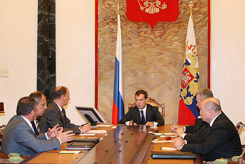 THE KREMLIN, MOSCOW. Meeting with permanent members of the Security Council.